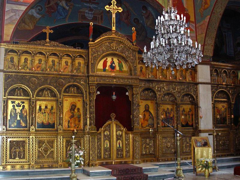 Gilded iconostasis in Melkite Church of the Annunciation, Jerusalem